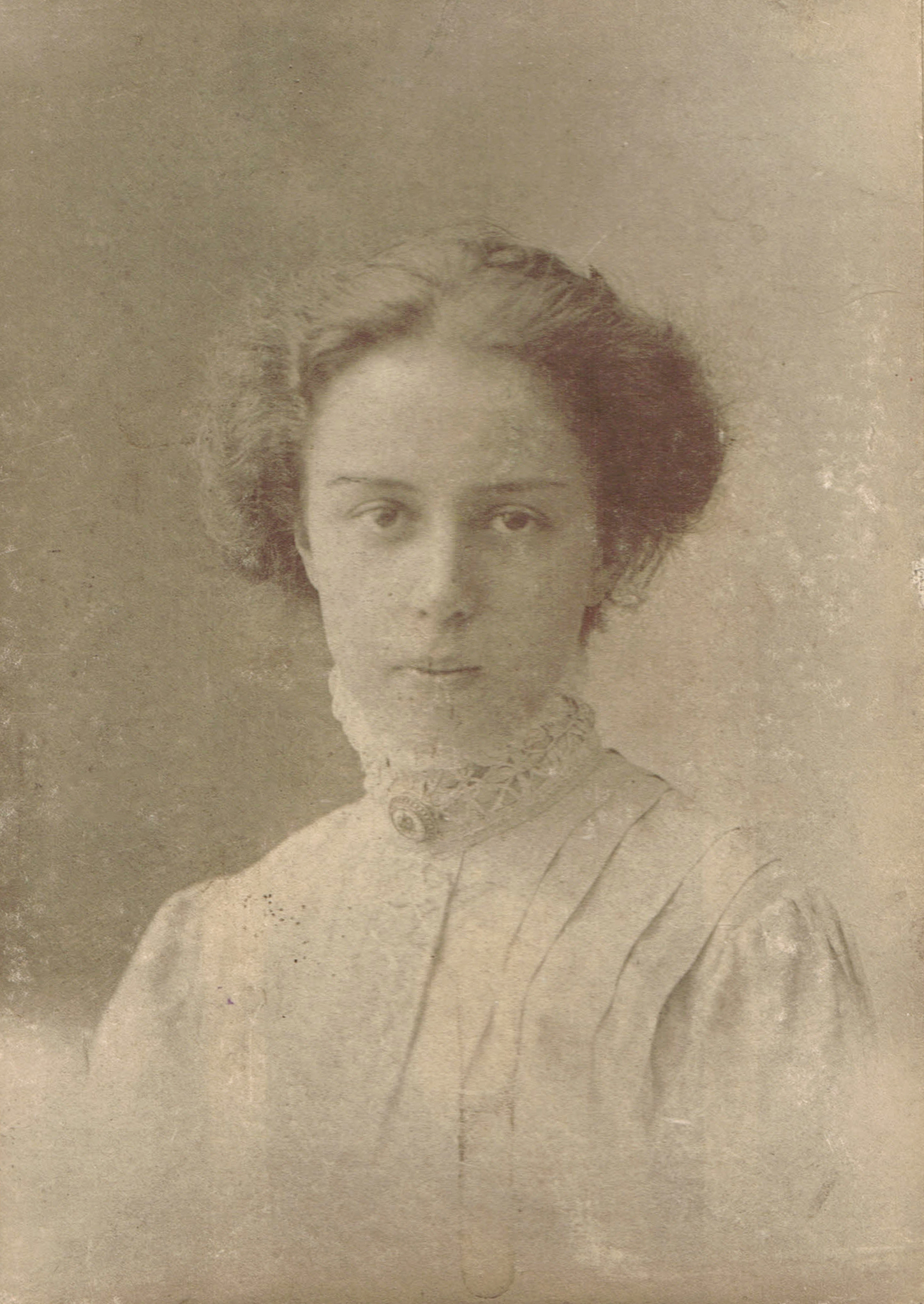 Zofia Vetulani in her youth.